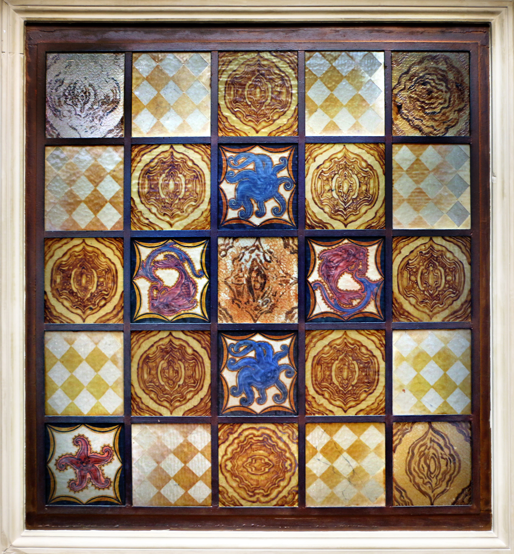 Viareggio